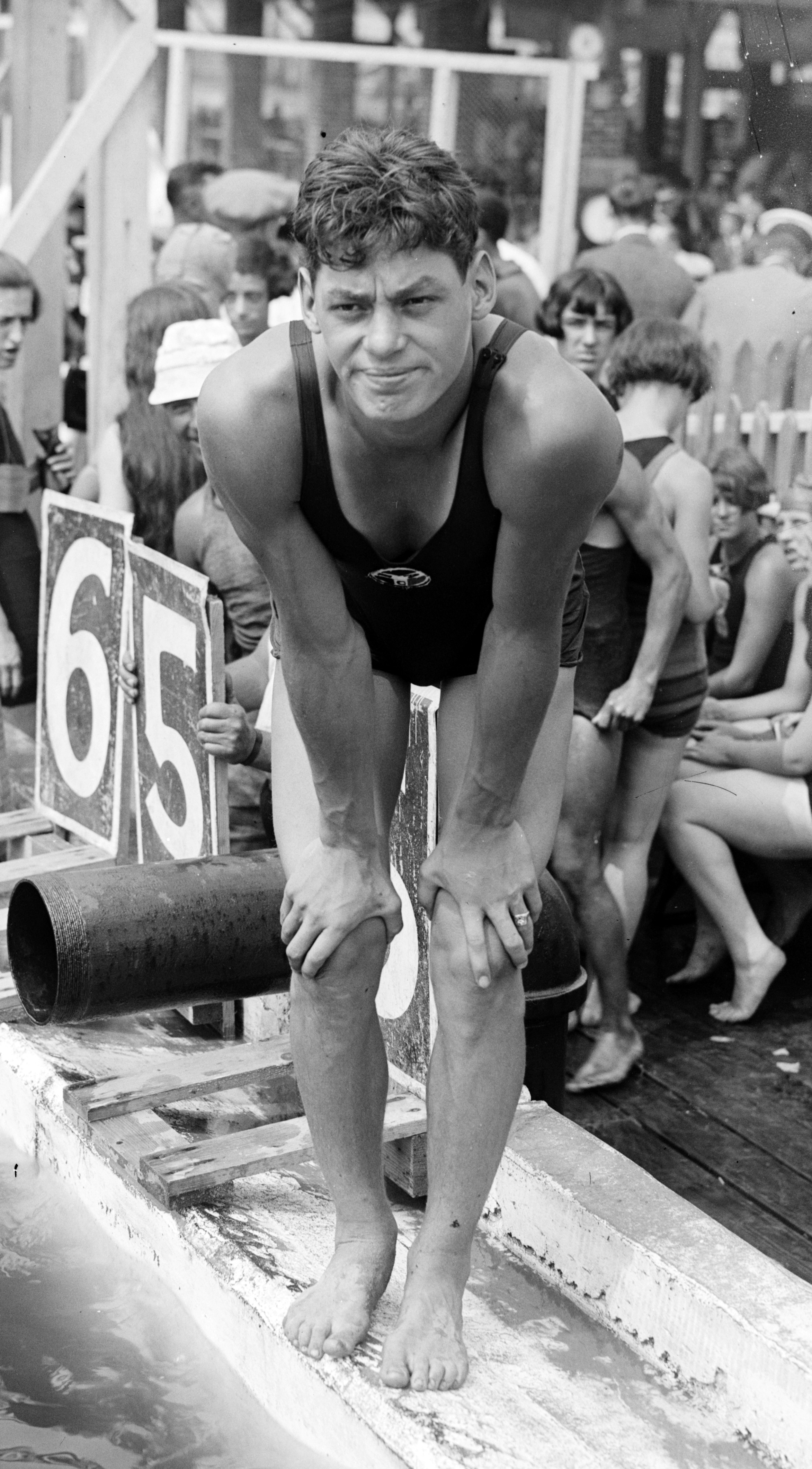 Johnny Weissmuller at a swim meet on July 23, 1922 in Brighton Beach, New York